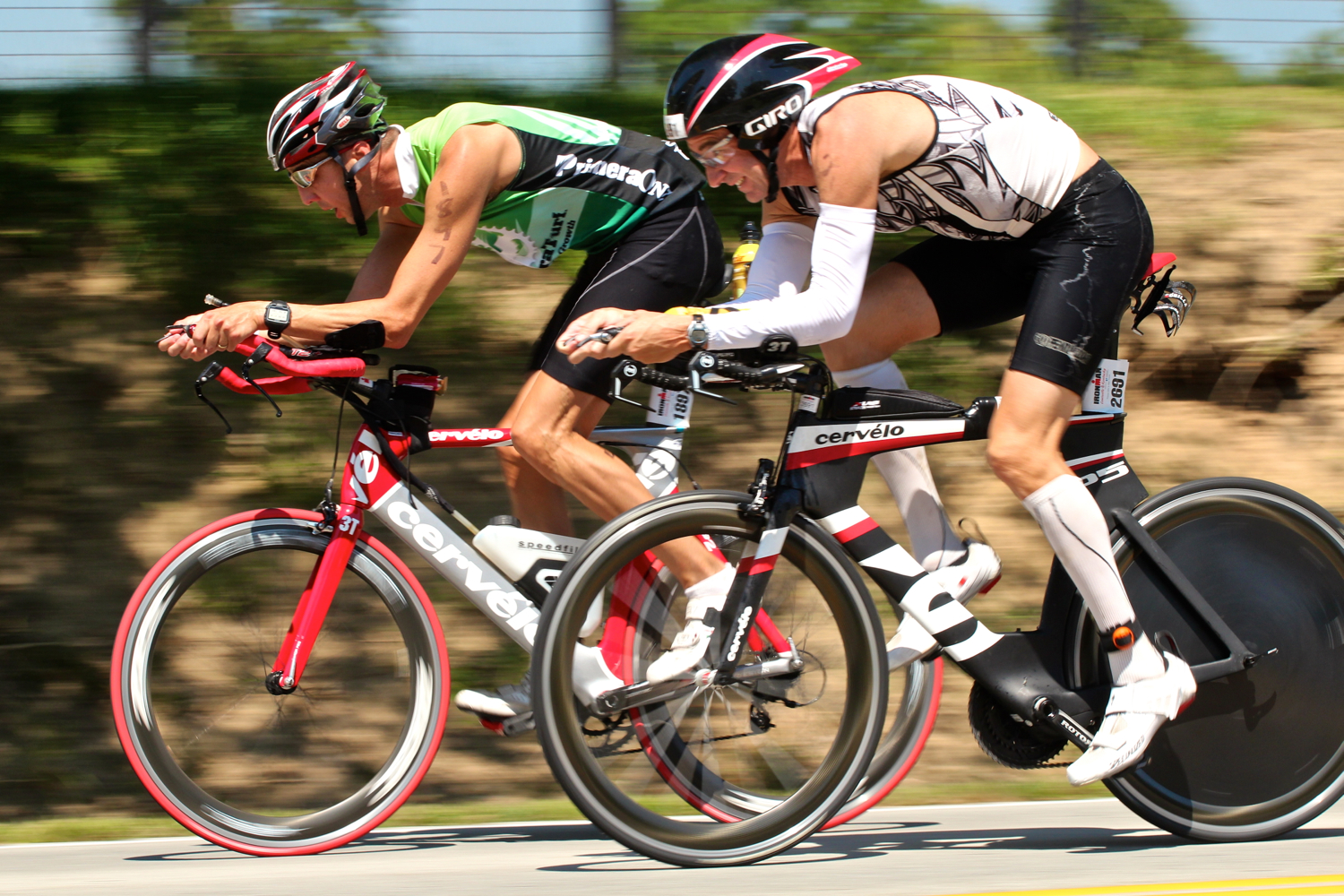 Cyclists riding through Goshen Kentucky on his way back to Louisville during the 2013 IRONMAN.